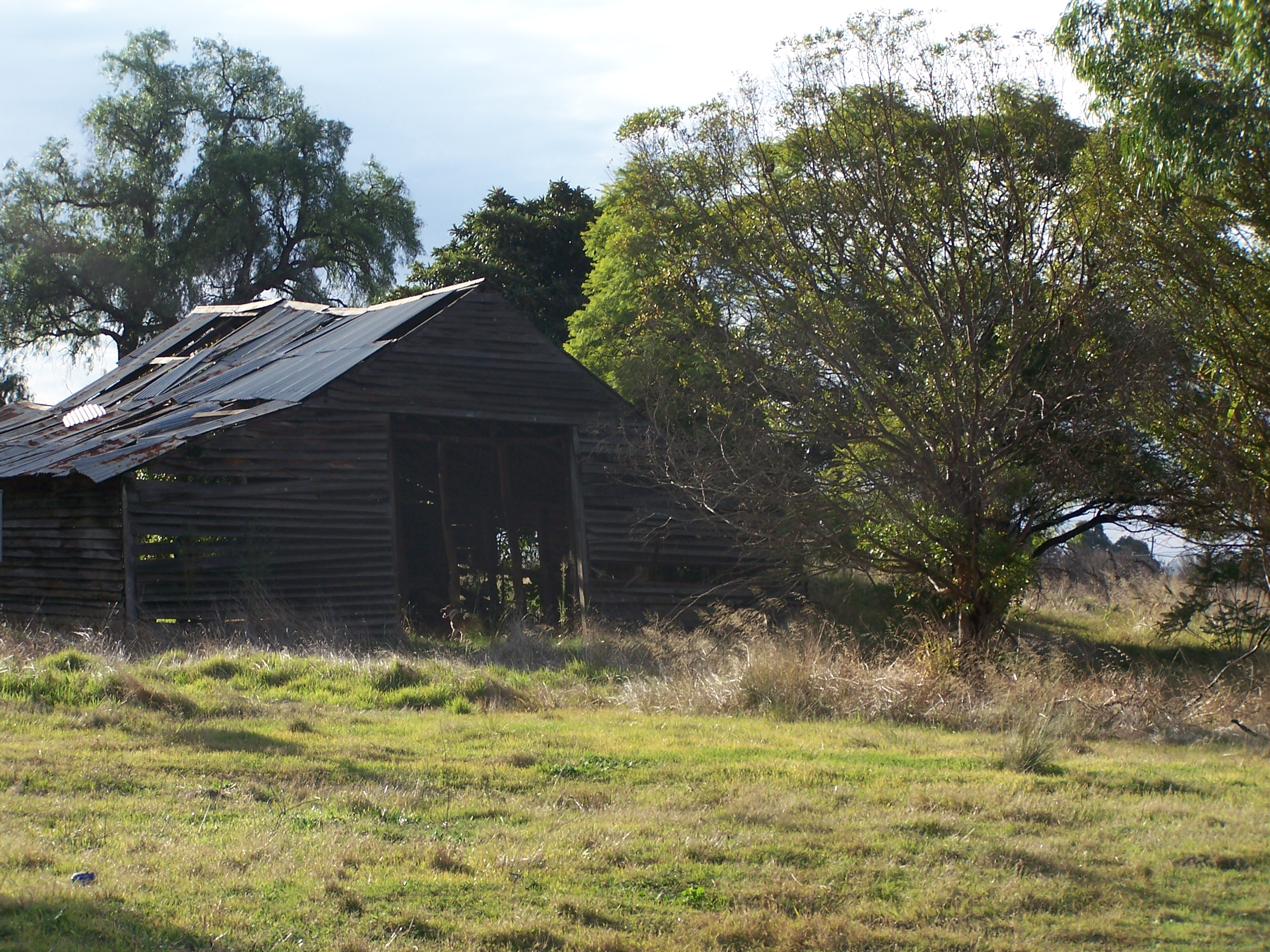 Shed on the heritage list Maddington Farm in Maddington, collapsed due to site works mid 2007